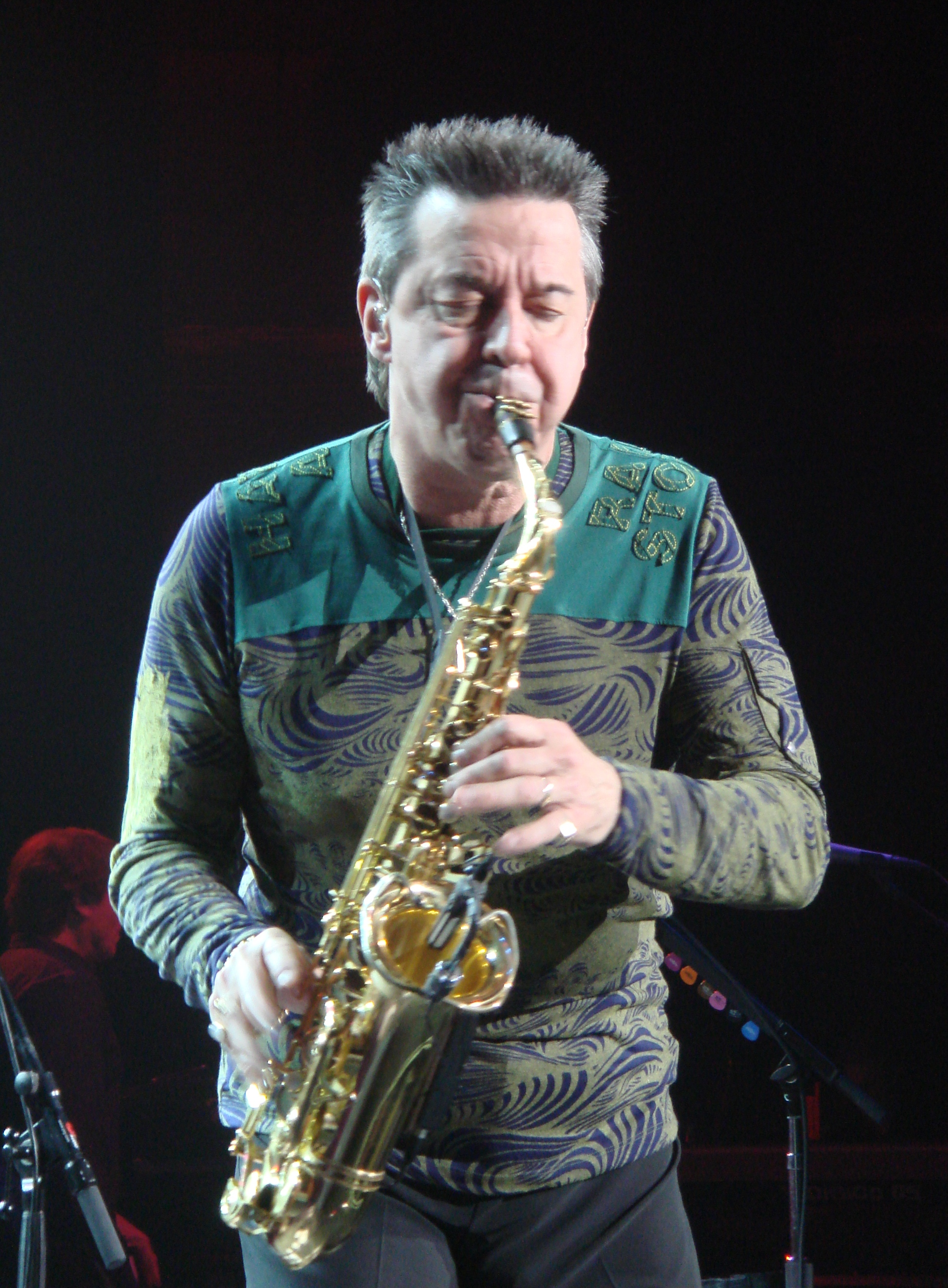 Walter Parazaider, American saxophonist for the band Chicago during a performance at the Dodge Theatre in Phoenix, AZ